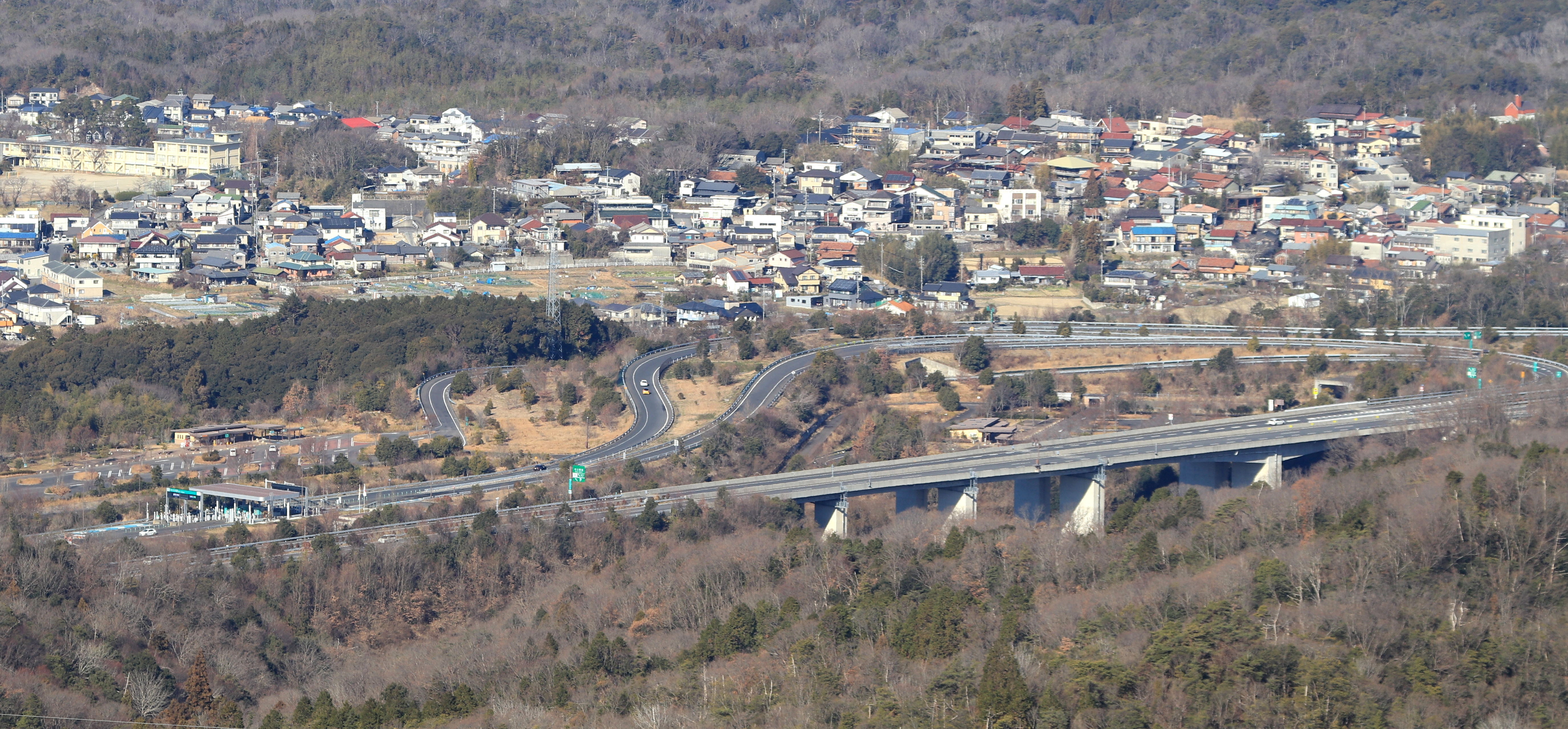 Seto-Akazu Parking Area and Seto-Akazu Interchange on Tōkai-Kanjō Expressway seen from Mount Sanage in Seto, Aichi Prefecture, Japan. Canon EOS Kiss X9